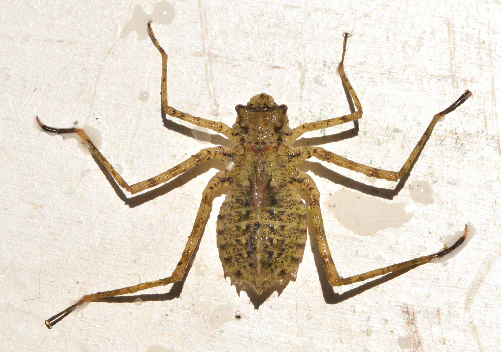 Western River Cruiser (Macromia magnifica), Maacama Creek, CA